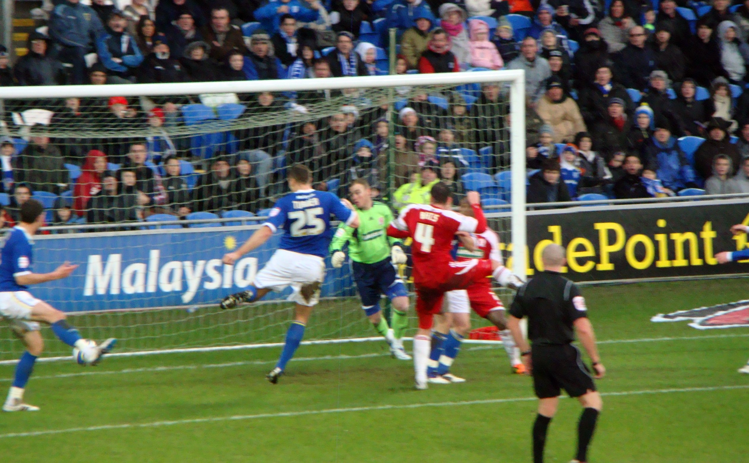 Ben Turner's first goal with Cardiff against Middlebrough (december 2011)